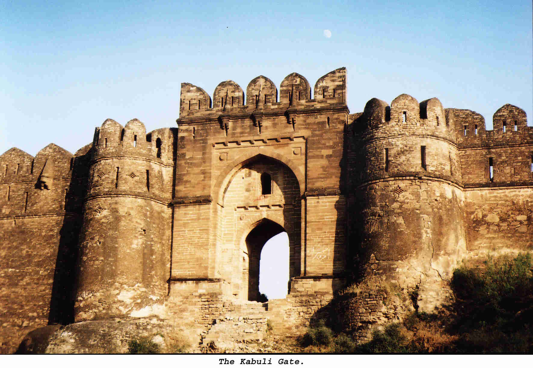 Rohtas Fort, Kabuli Gate